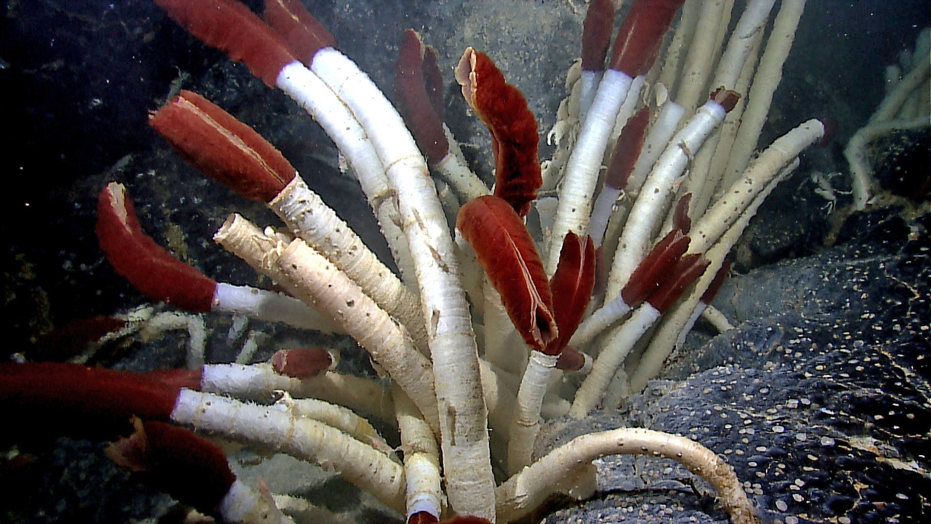 Riftia pachyptila tube worms. From the 2011 NOAA Galapagos Rift Expedition. The original NOAA image has been modified by increasing brightness.